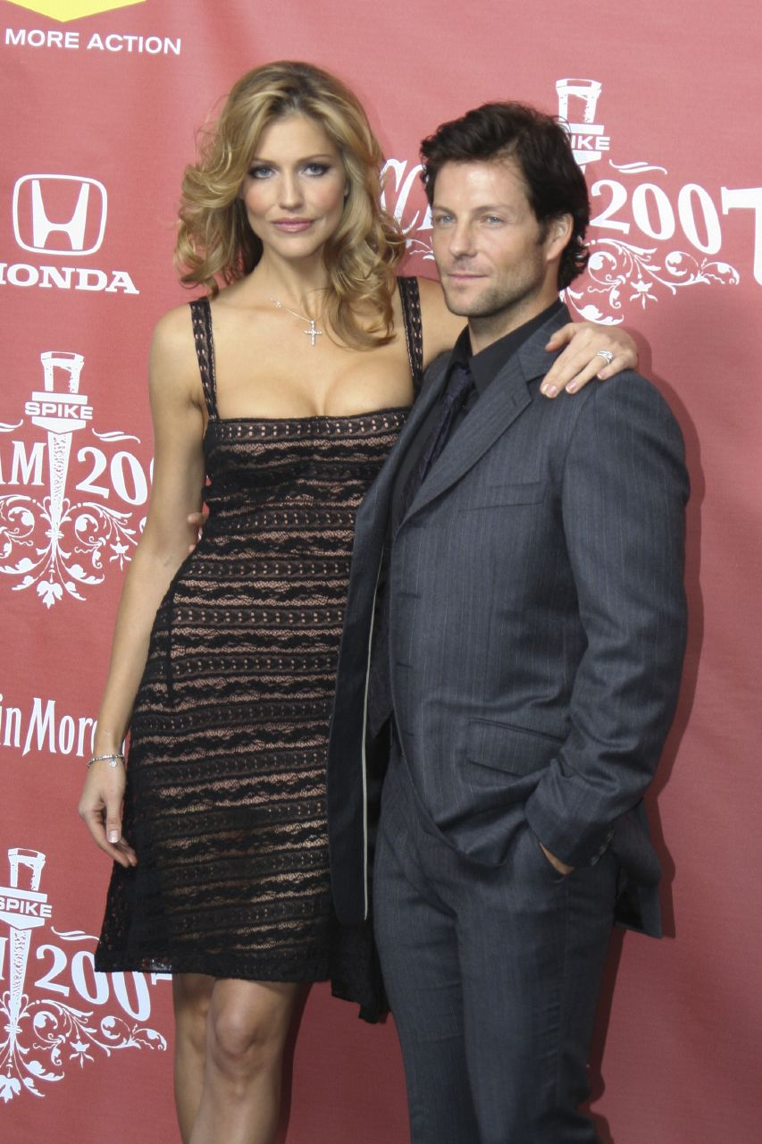 Canadian actress Tricia Helfer and her English colleague Jamie Bamber. Taken at the 2007 Scream Awards.